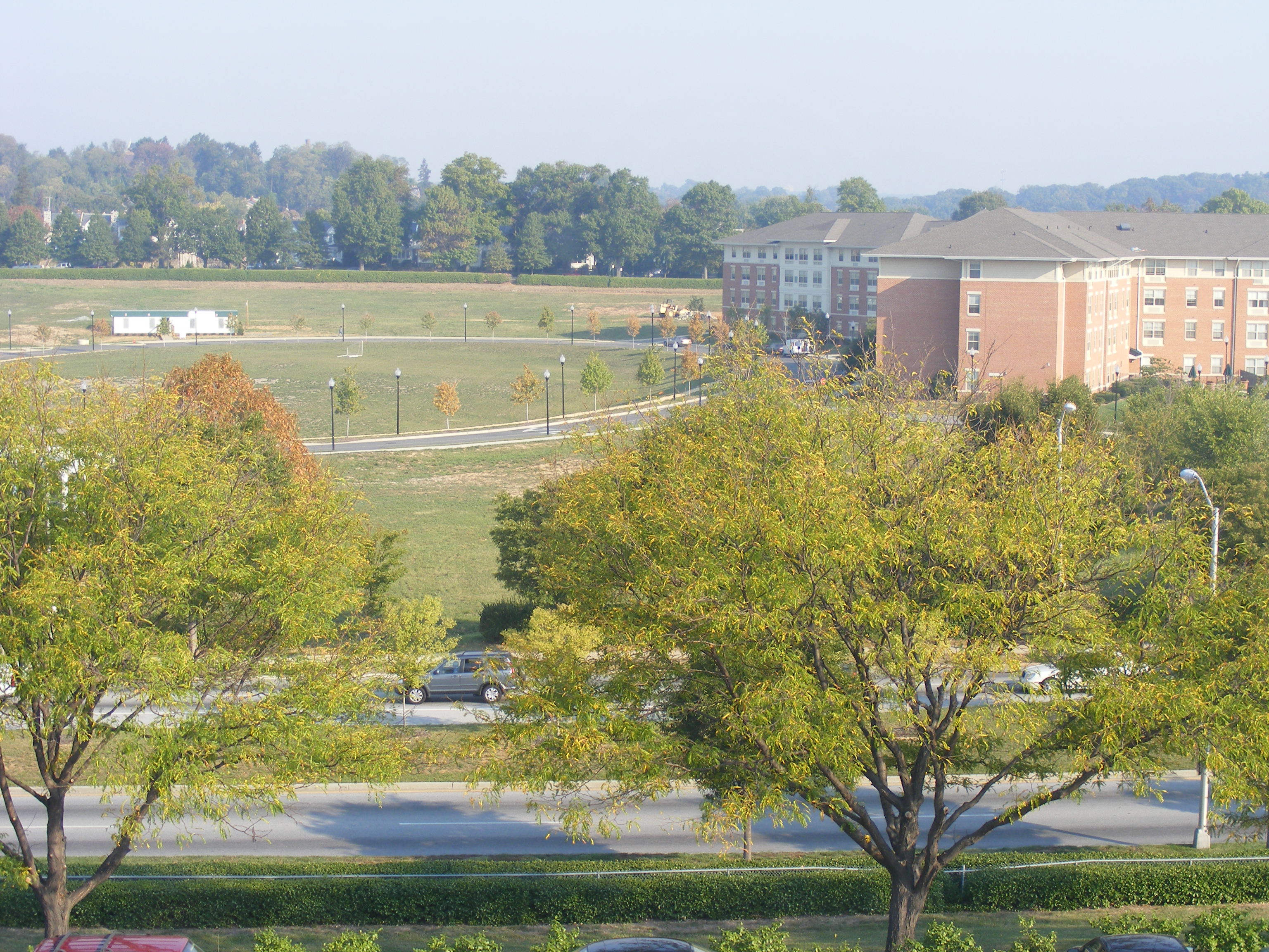 2007 Seniors apartment complex, Ednor Gardens-Lakeside, Baltimore